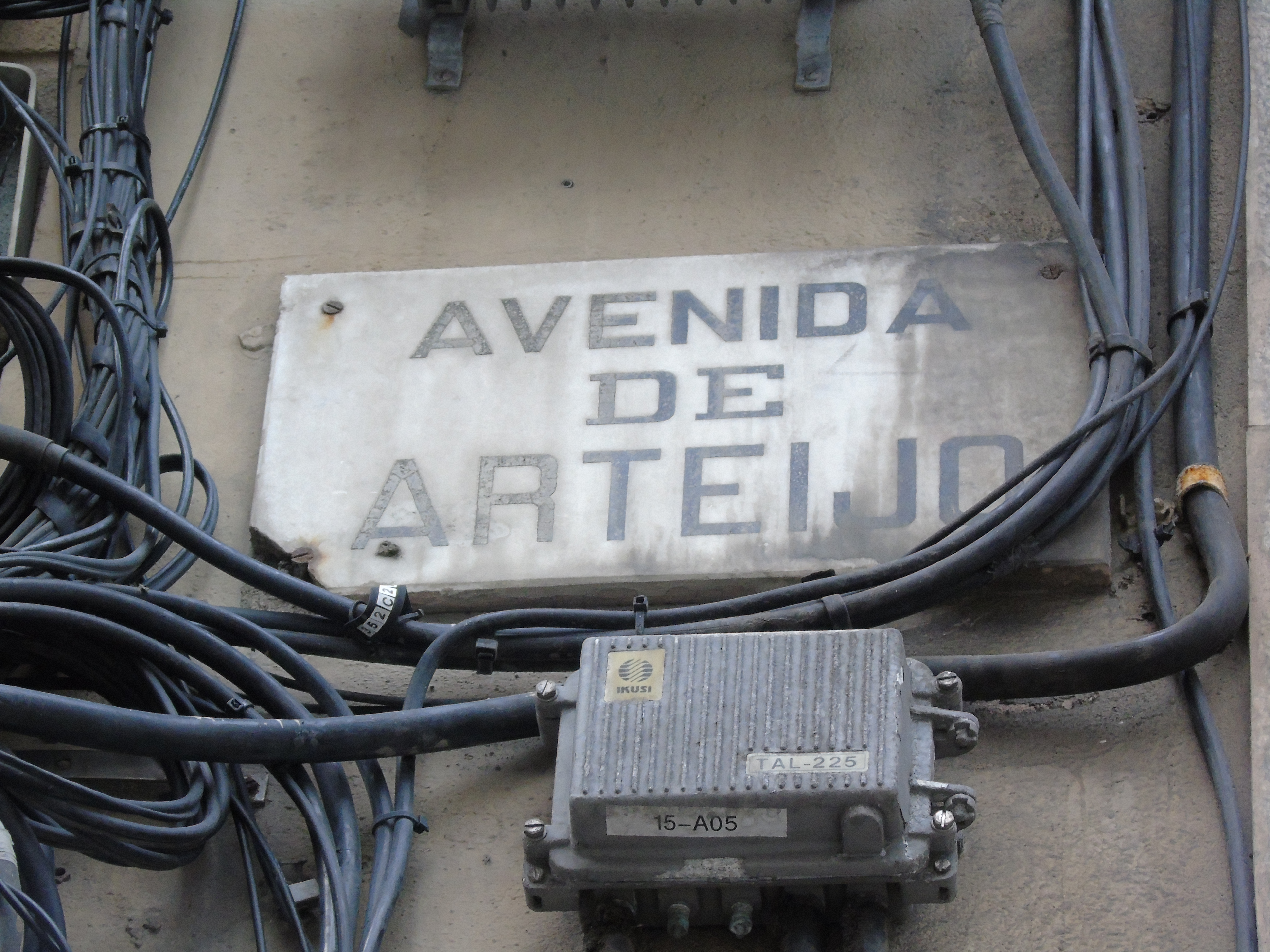 Street sign of Arteixo Avenue, in Corunna, Galicia, Spain.